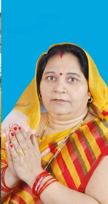 She is the current Gram Pradhan(Sarpanch) of Indupur.